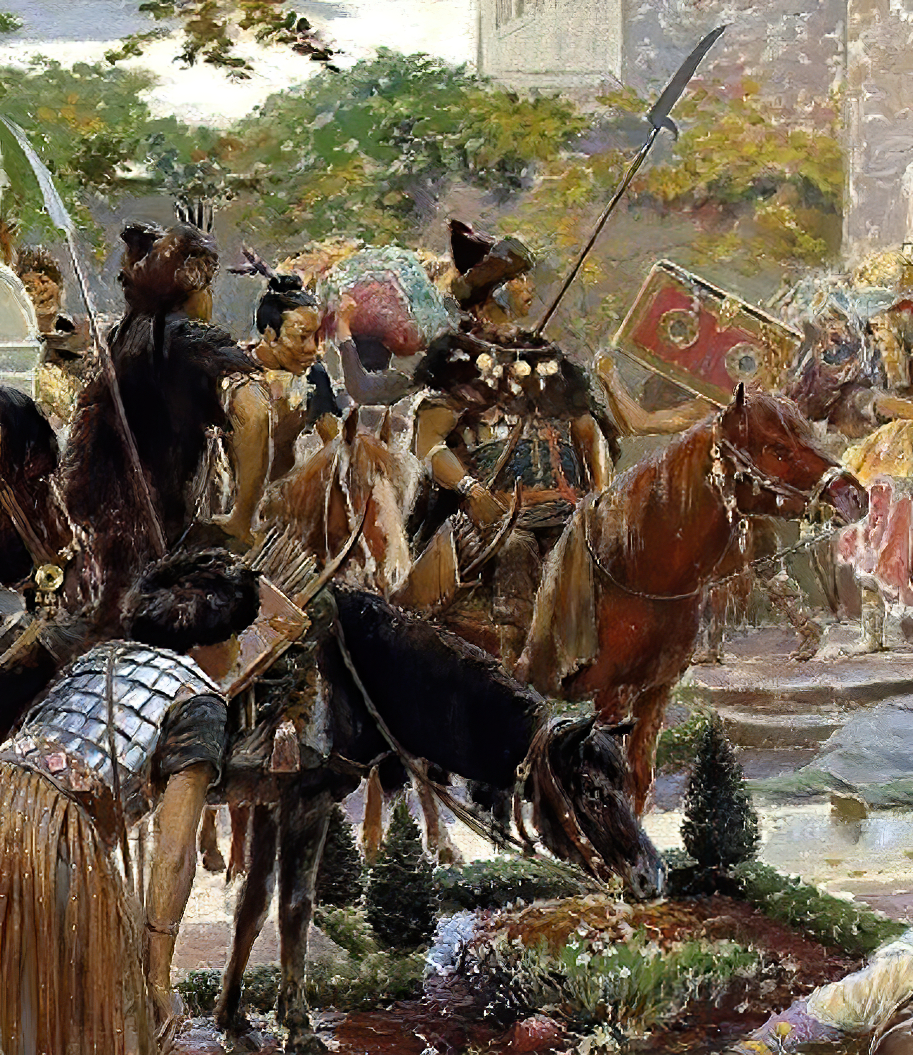 Huns by Rochegrosse 1910 (detail)